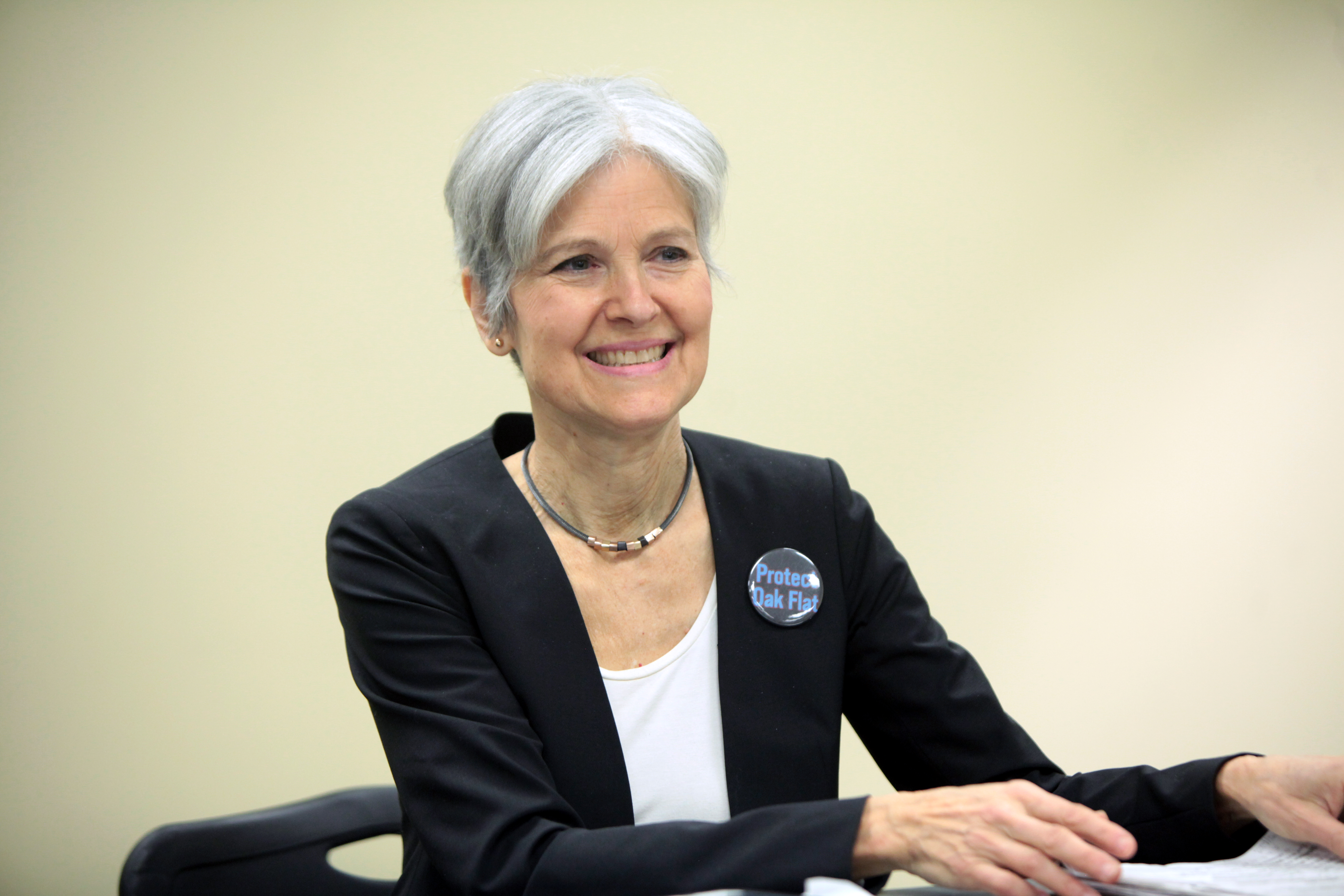 Jill Stein speaking at the Green Party Presidential Candidate Town Hall hosted by the Green Party of Arizona at the Mesa Public Library in Mesa, Arizona.